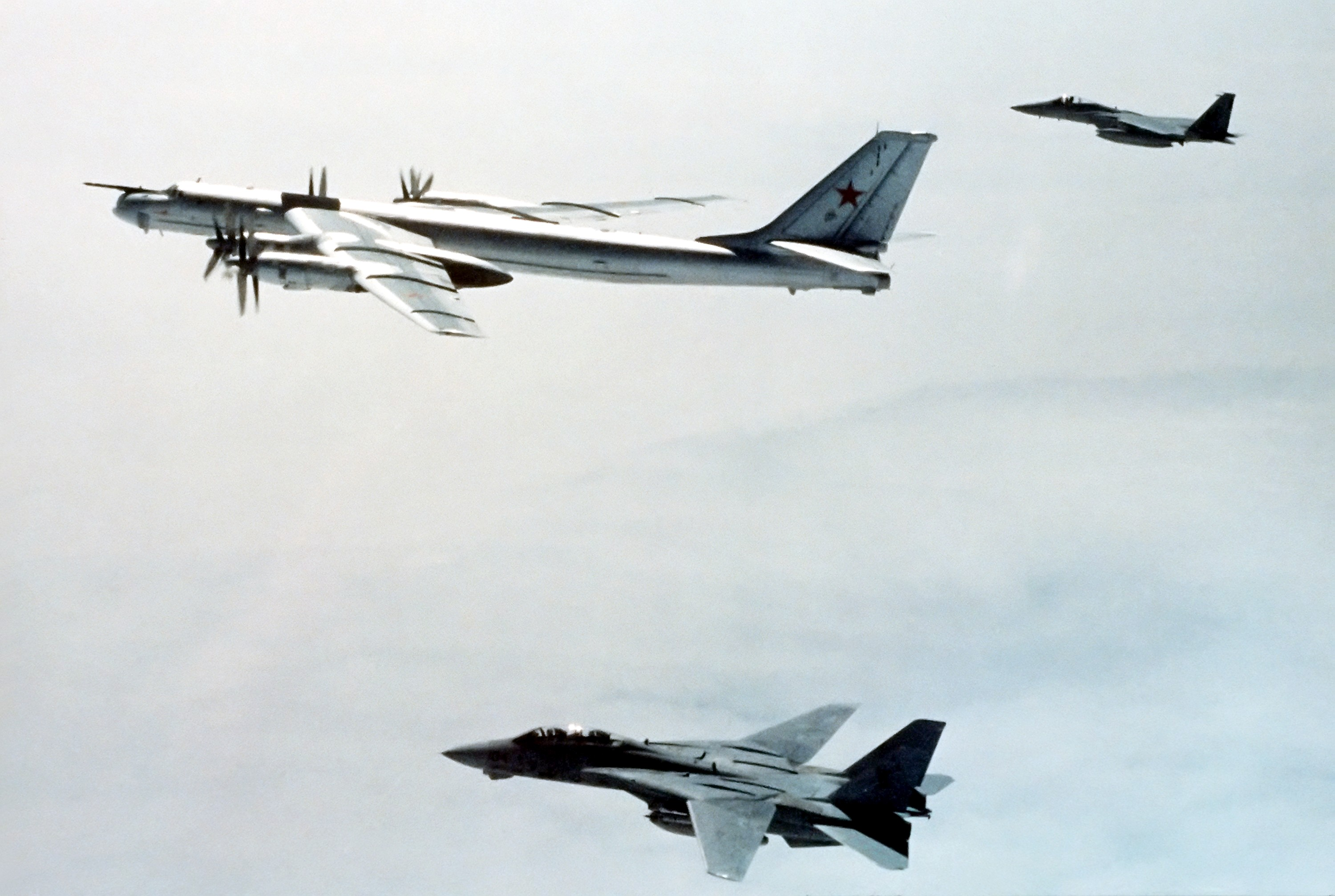 An air-to-air left side view of a Soviet TU-95 Bear-H aircraft being escorted by a U.S. Navy F-14A Tomcat aircraft, foreground, and a U.S. Air Force F-15 Eagle aircraft after it was intercepted approximately 350 nautical miles southwest of Adak, Alaska. The F-14 is from Naval Station, Adak, and the F-15 is assigned to the 21st Tactical Fighter Wing, Alaskan Air Command.